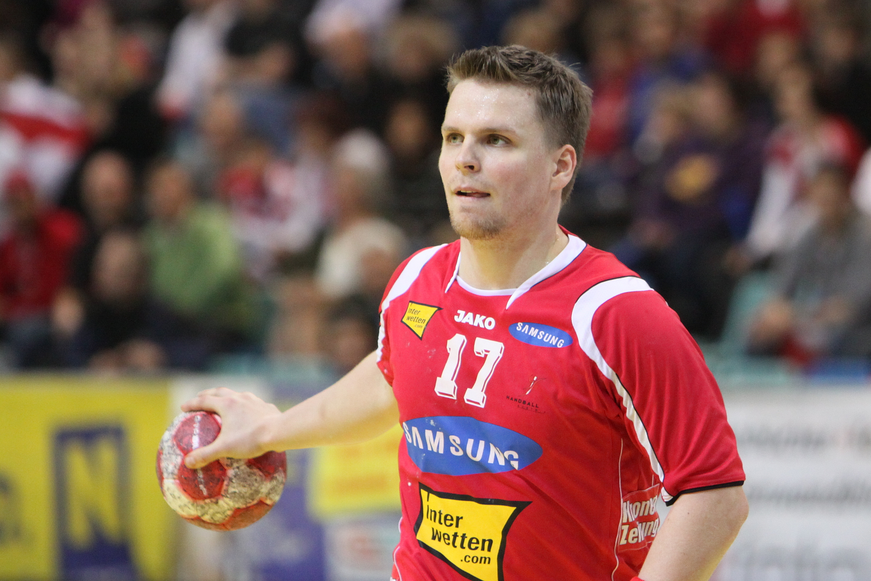 Konrad Wilczynski (Füchse Berlin), Austria national handball team